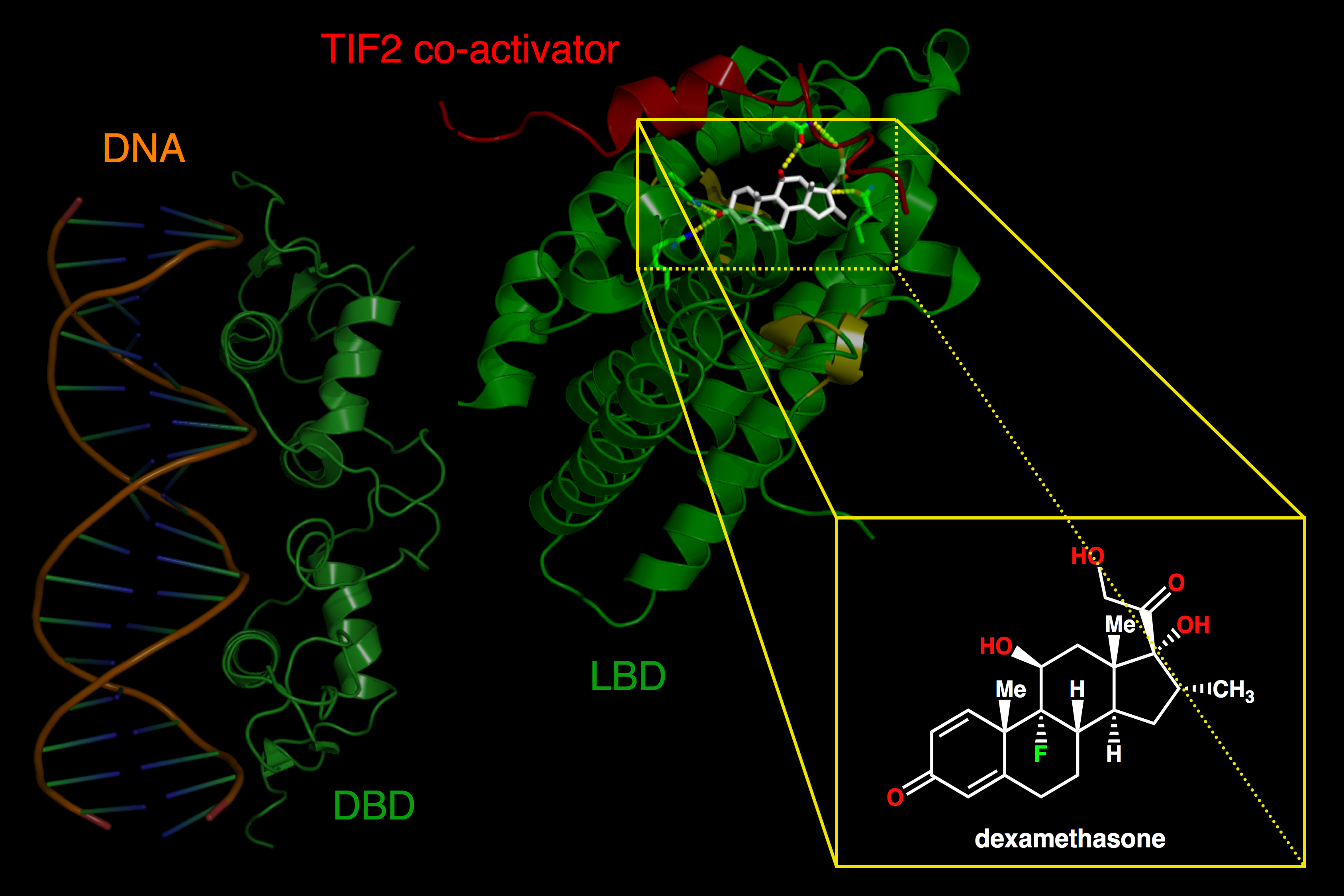 Created myself using PyMol and ChemDraw.